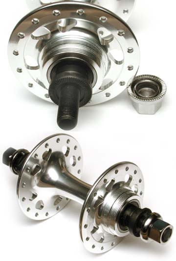 Hub flip flop